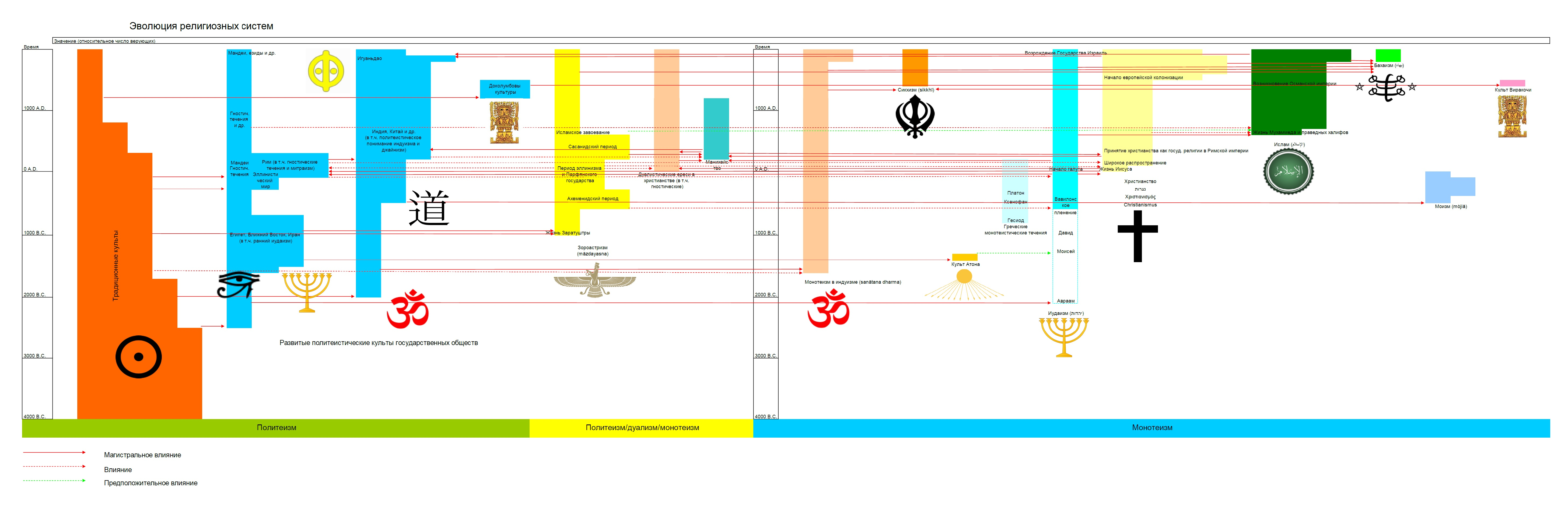 The Evolution of Religion